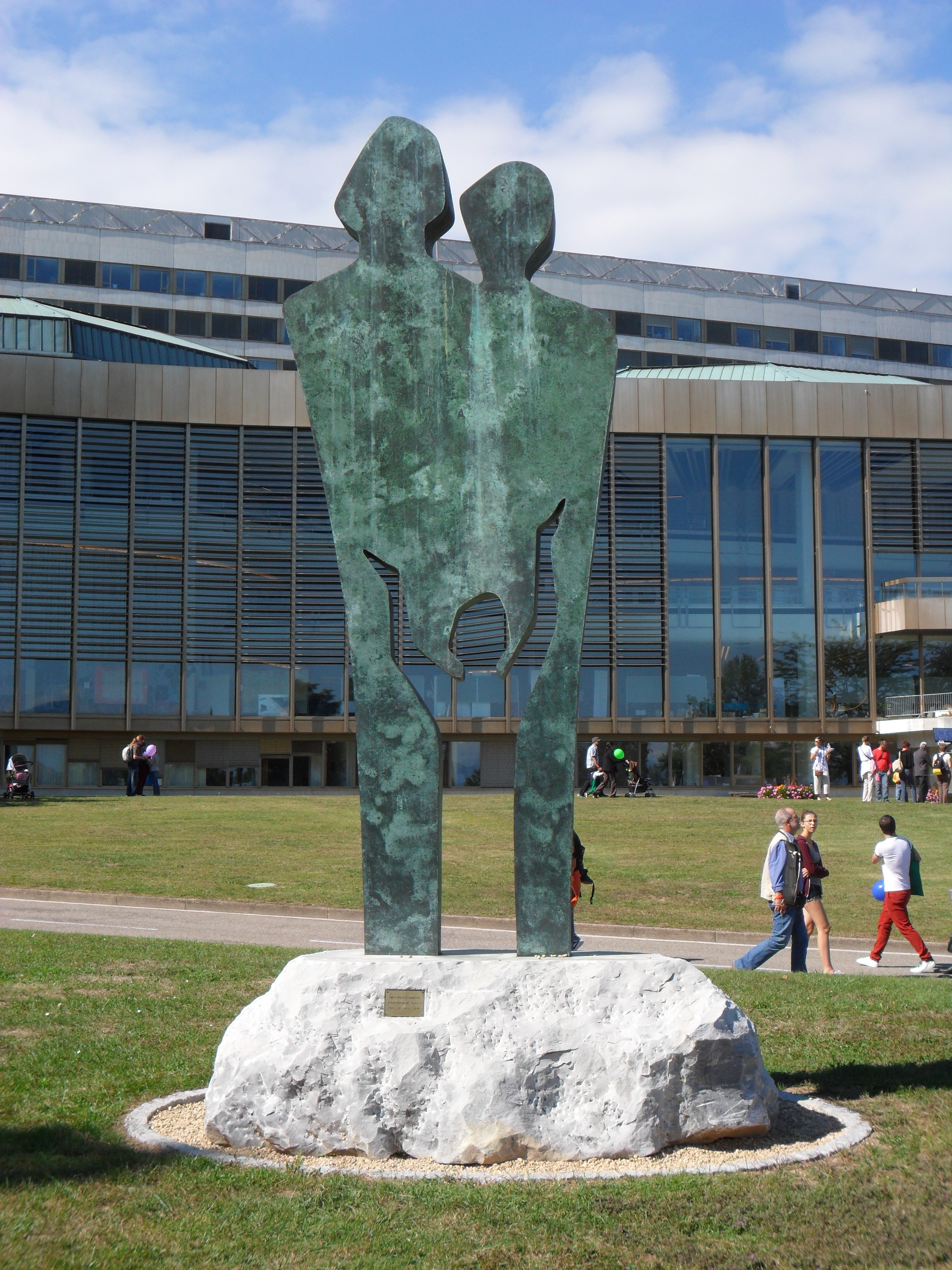 Two parents and a child, the statue Family in the garden of the Palace of Nations (United Nations Office at Geneva, Switzerland). The statue by Edwina Sandys commemorates the International Year of the Child.